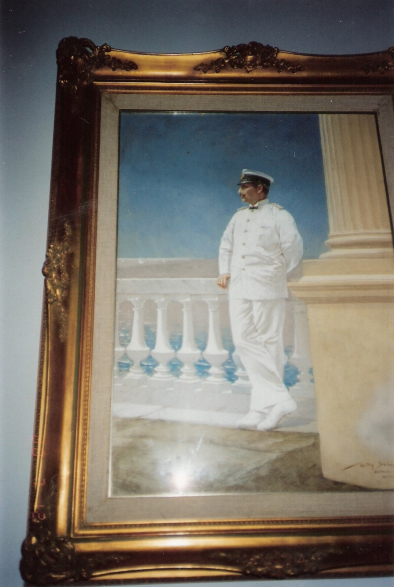 painting of kaiser wilhelm in achilleion, corfu